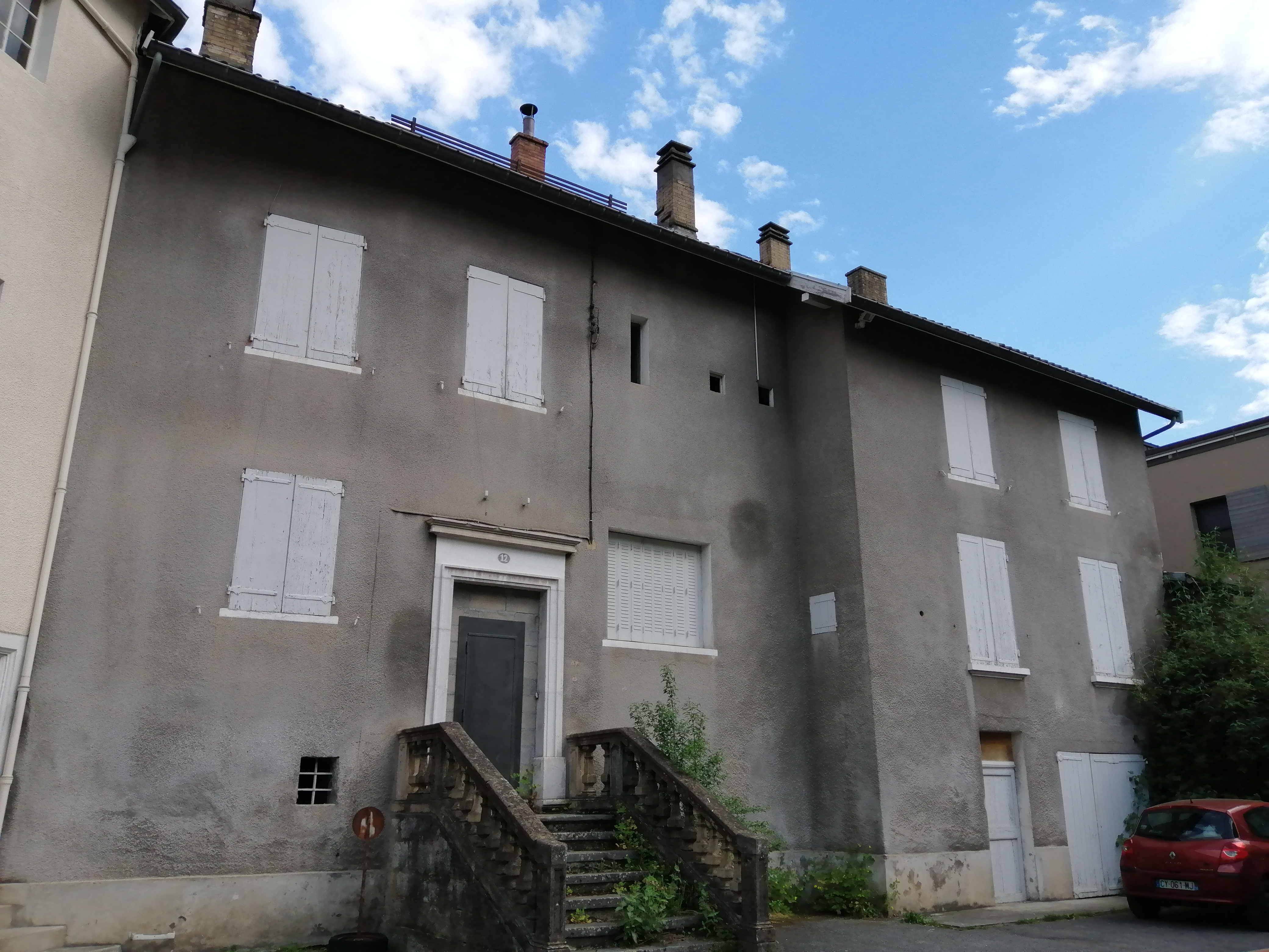 Old Town house of Vif (in France) from 1837 to 1872.